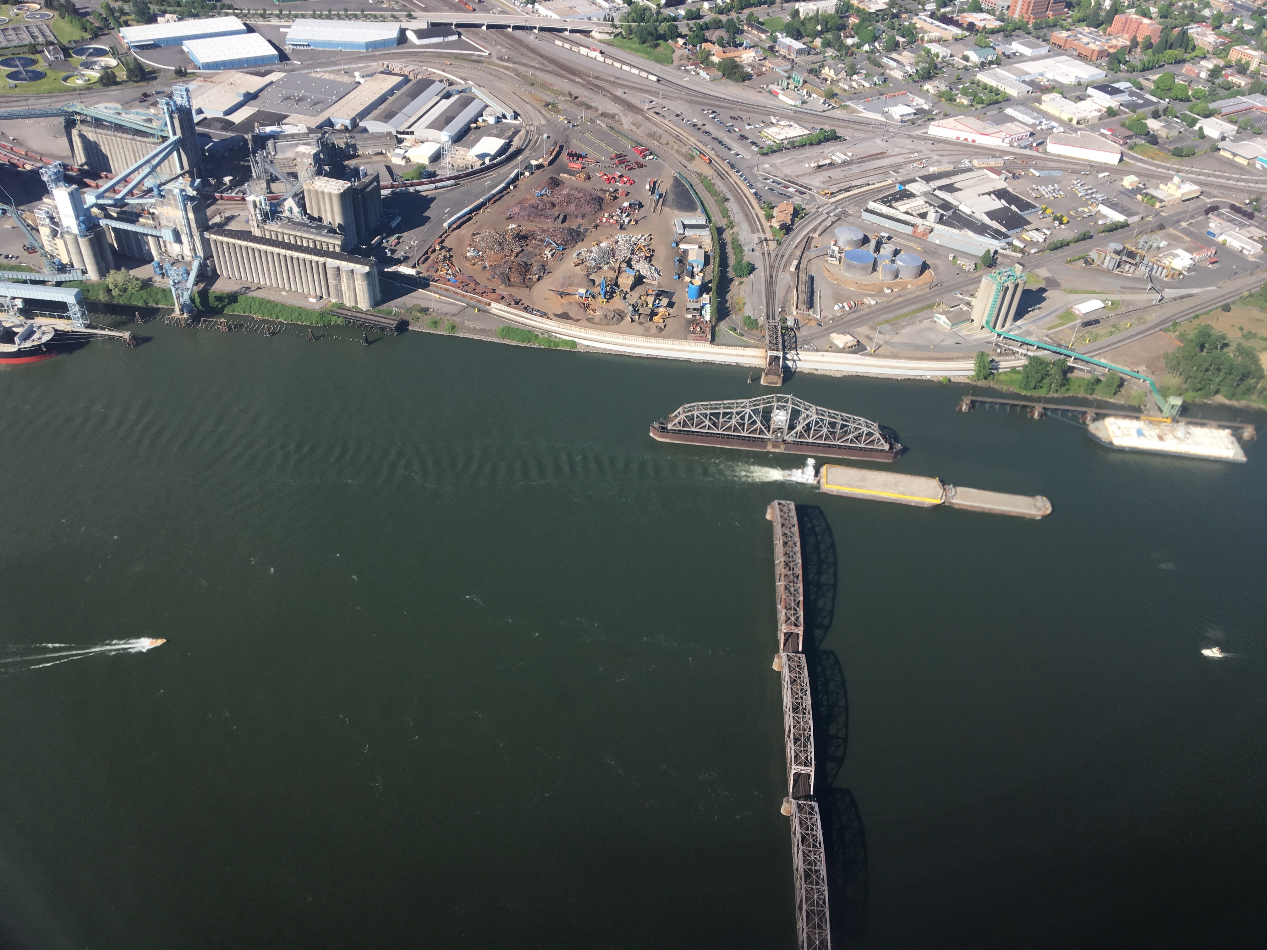 Aerial view of Burlington Northern railroad bridge across Columbia River